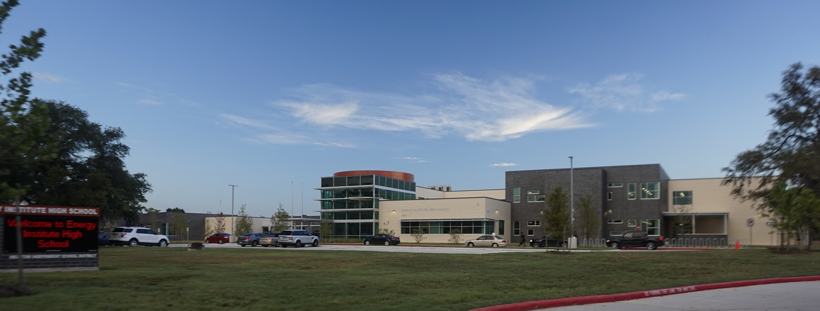 The front of Energy Institute High School, 3501 Southmore Blvd, Houston, TX 77004. Photo taken August 28, 2018.